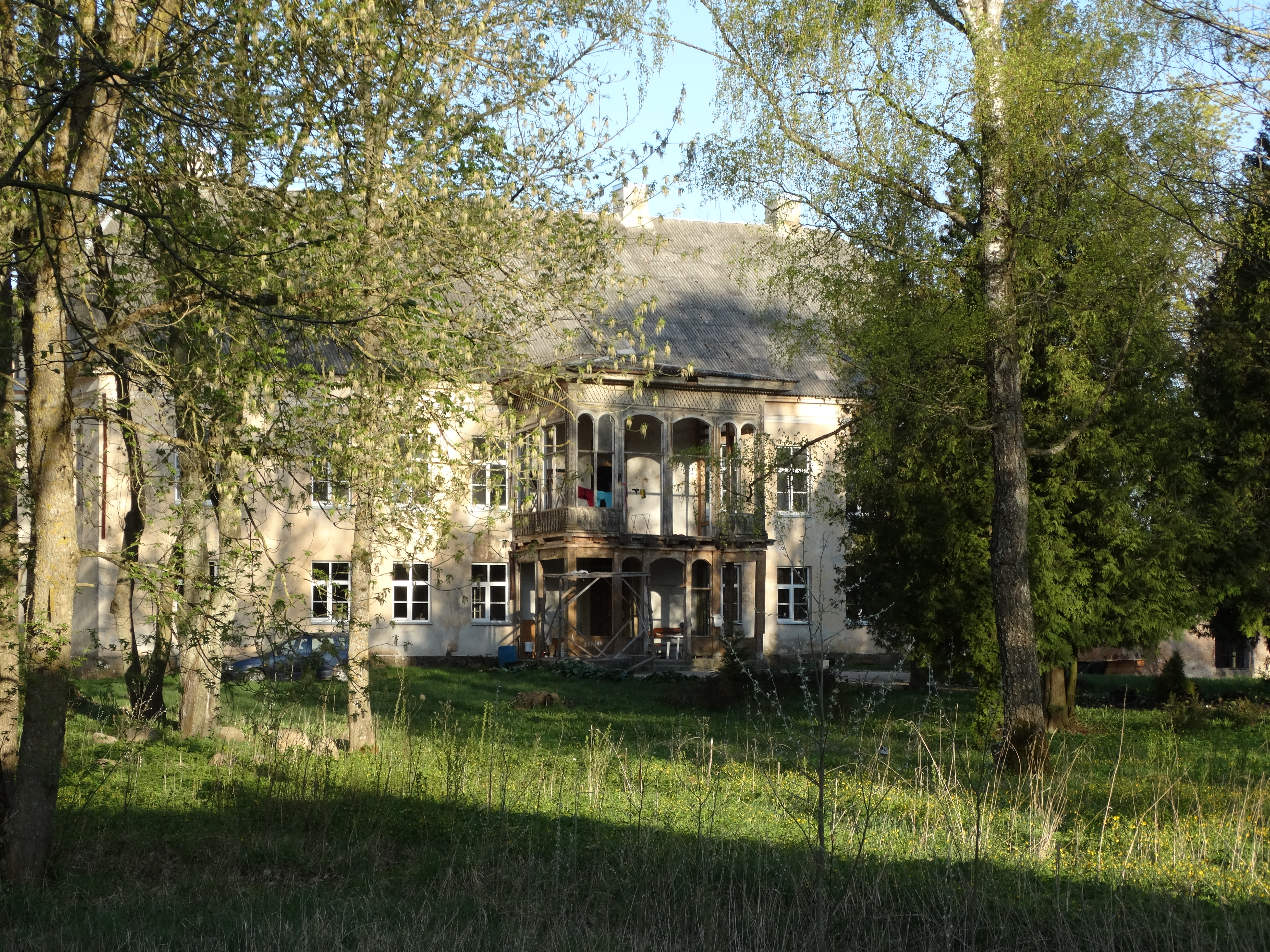 Radviloniai manor, Radviliškis District, Lithuania